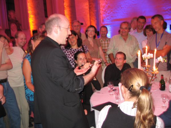 Martin Eisele doing close-up magic